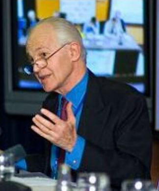 Delivering a lecture